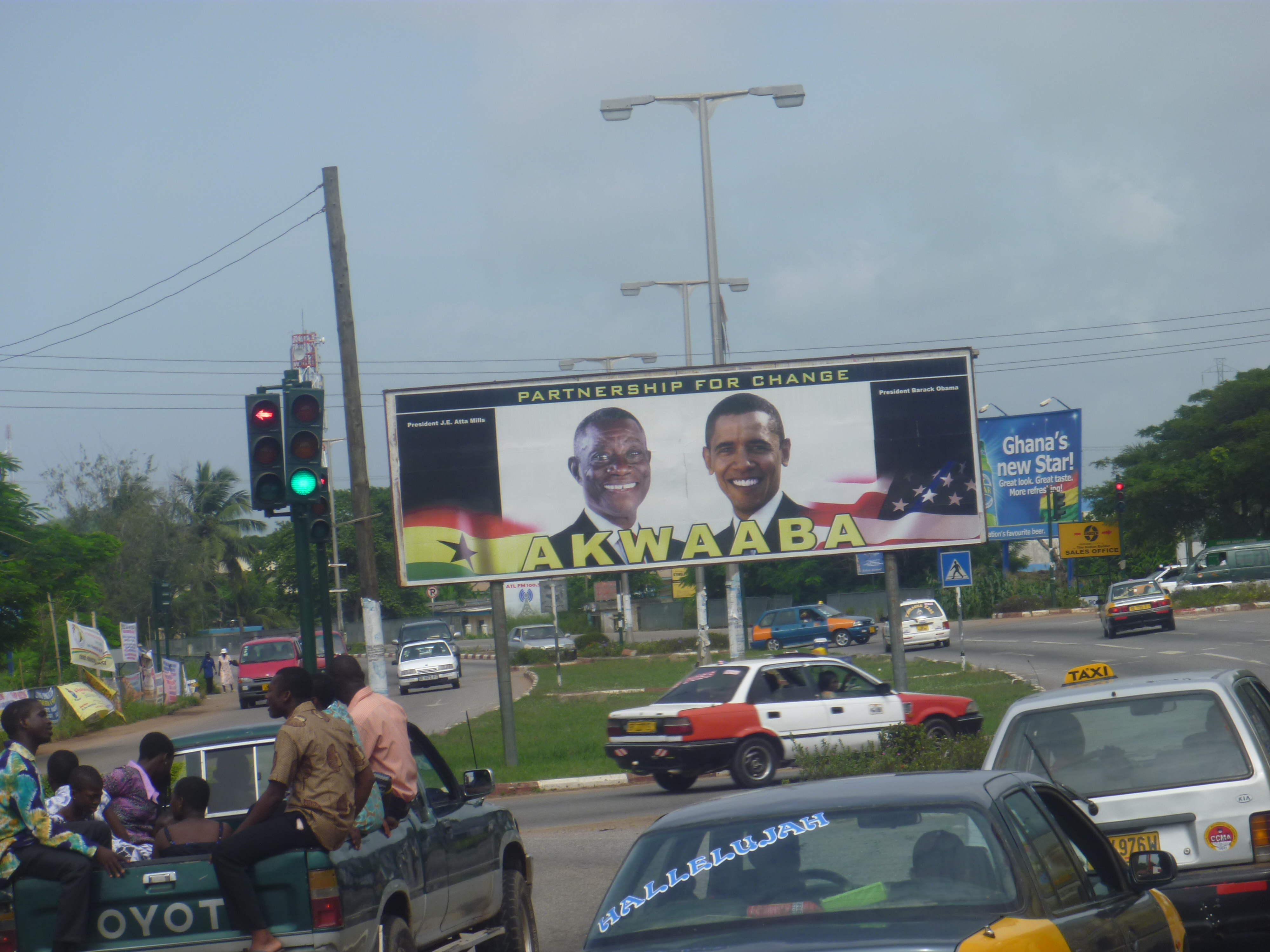 A billboard in Cape Coast, Ghana featuring U.S. President Barack Obama and Ghana President John Atta Mills